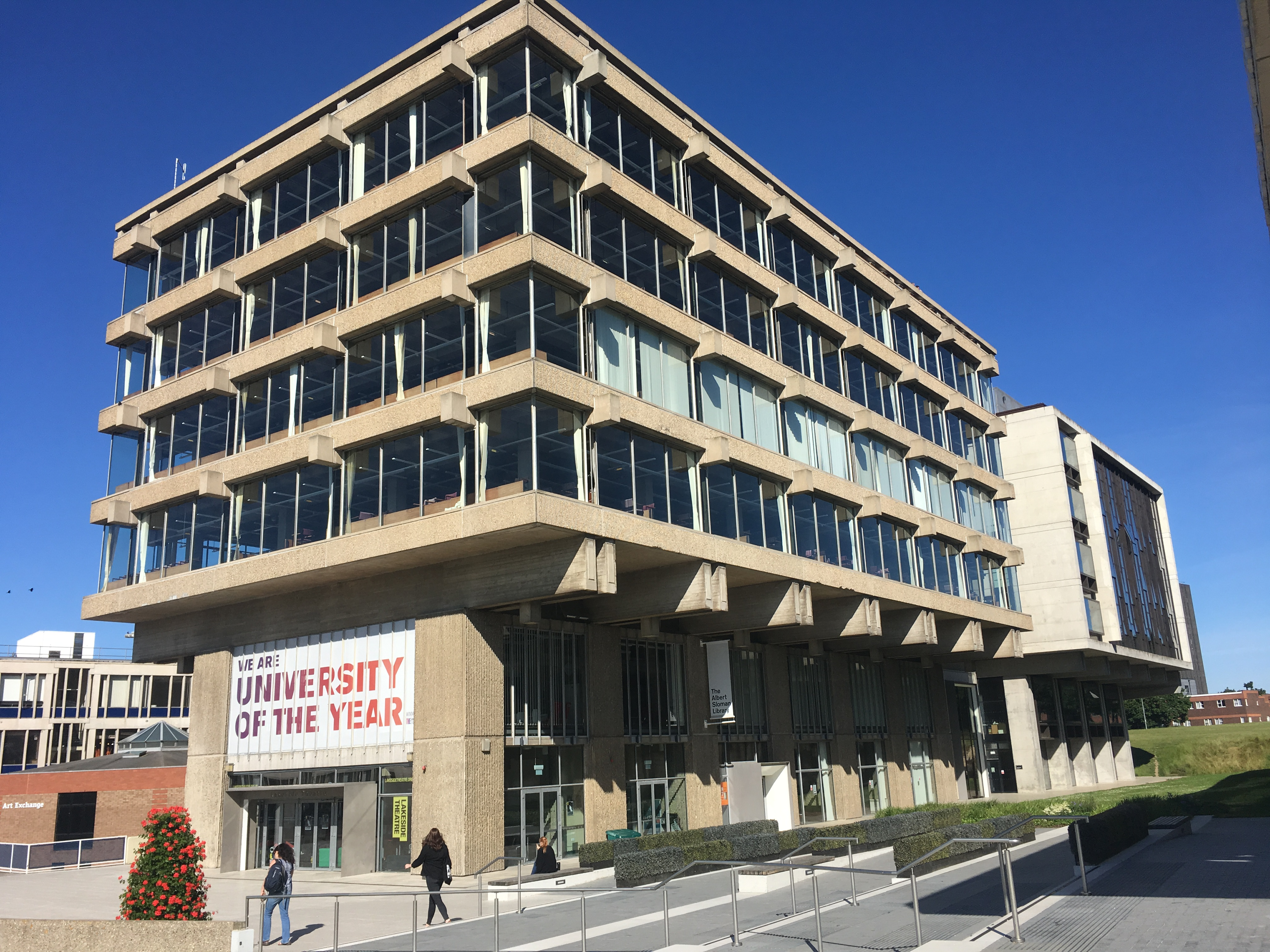 Albert Sloman Library and extension, Colchester Campus, University of Essex